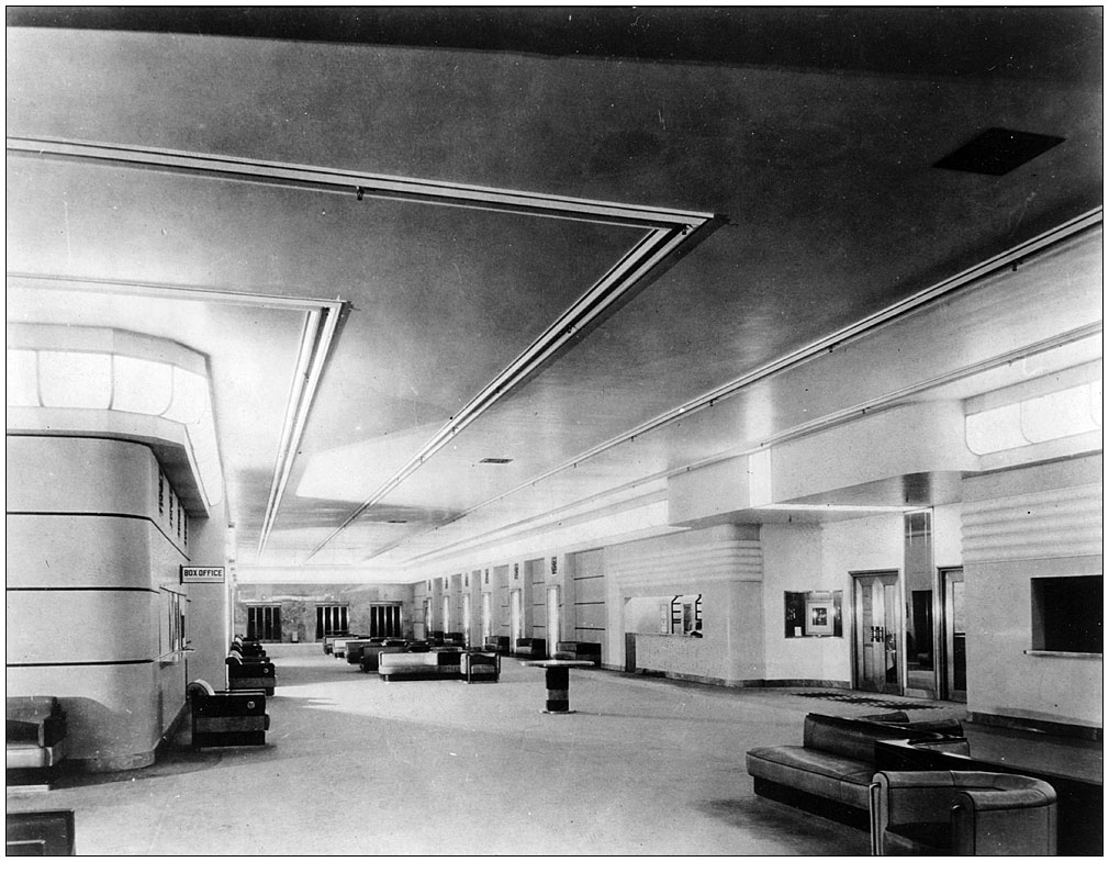 Photograph of grand foyer on seventh floor of Eaton’s College St. Store